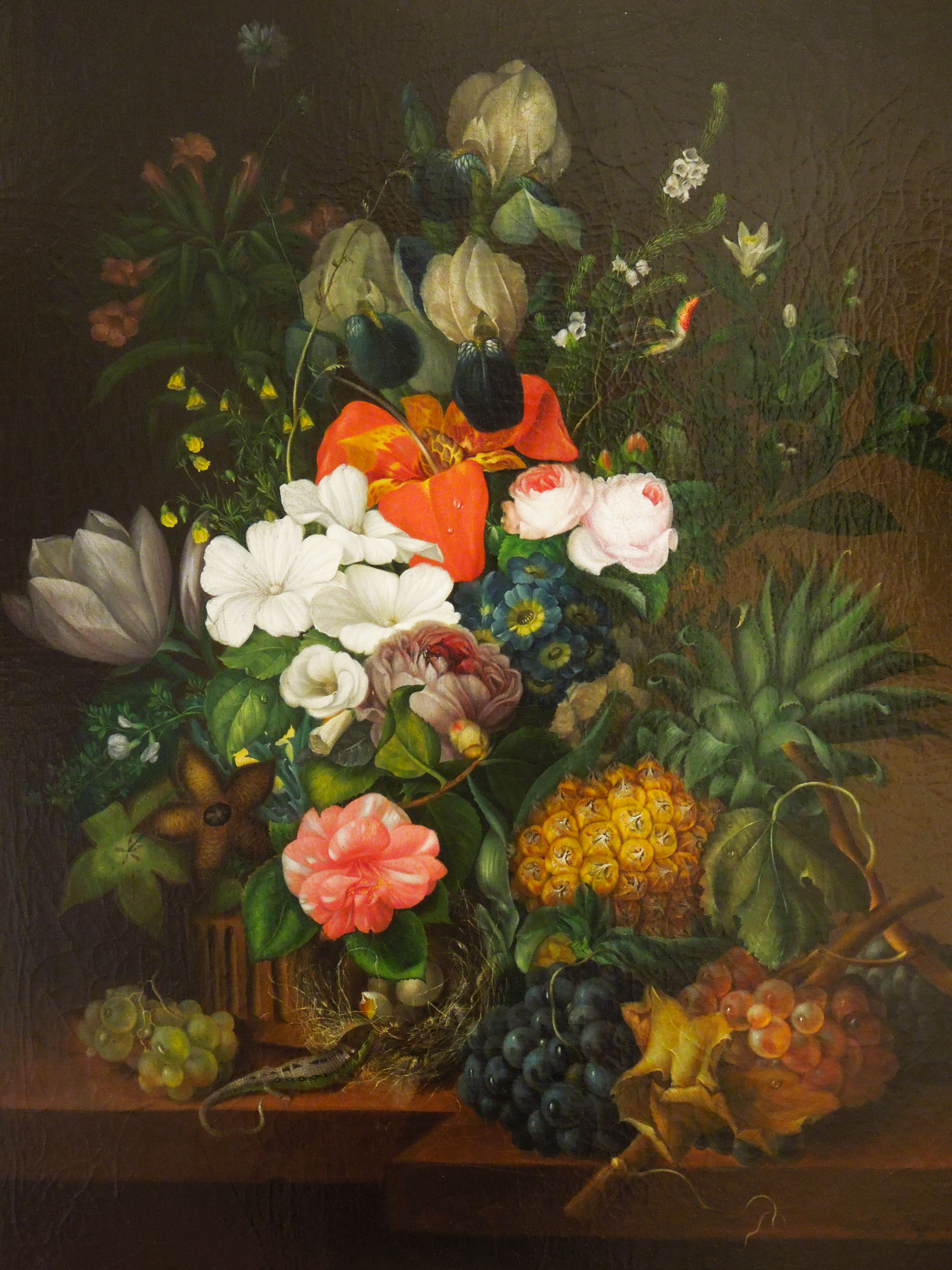 Jenny Salmová - Still Life with a Lizard and Flowers, 1826